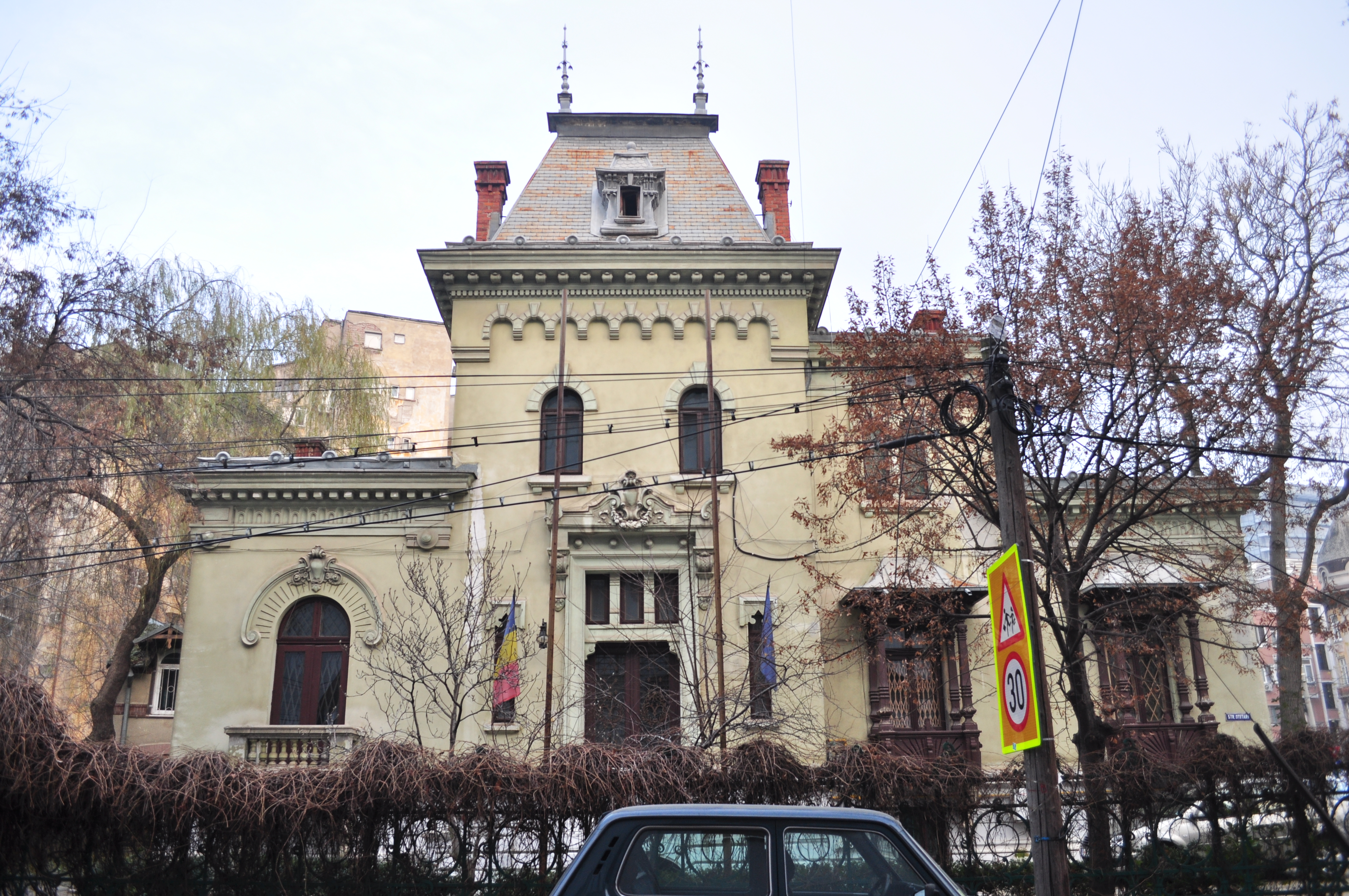 Vila Matilda ("Matilda Villa"), Oțetari Street, Nr. 2, Bucharest, RomaniaRomână: Vila Matilda din strada Oțetari, Nr. 2, București, România